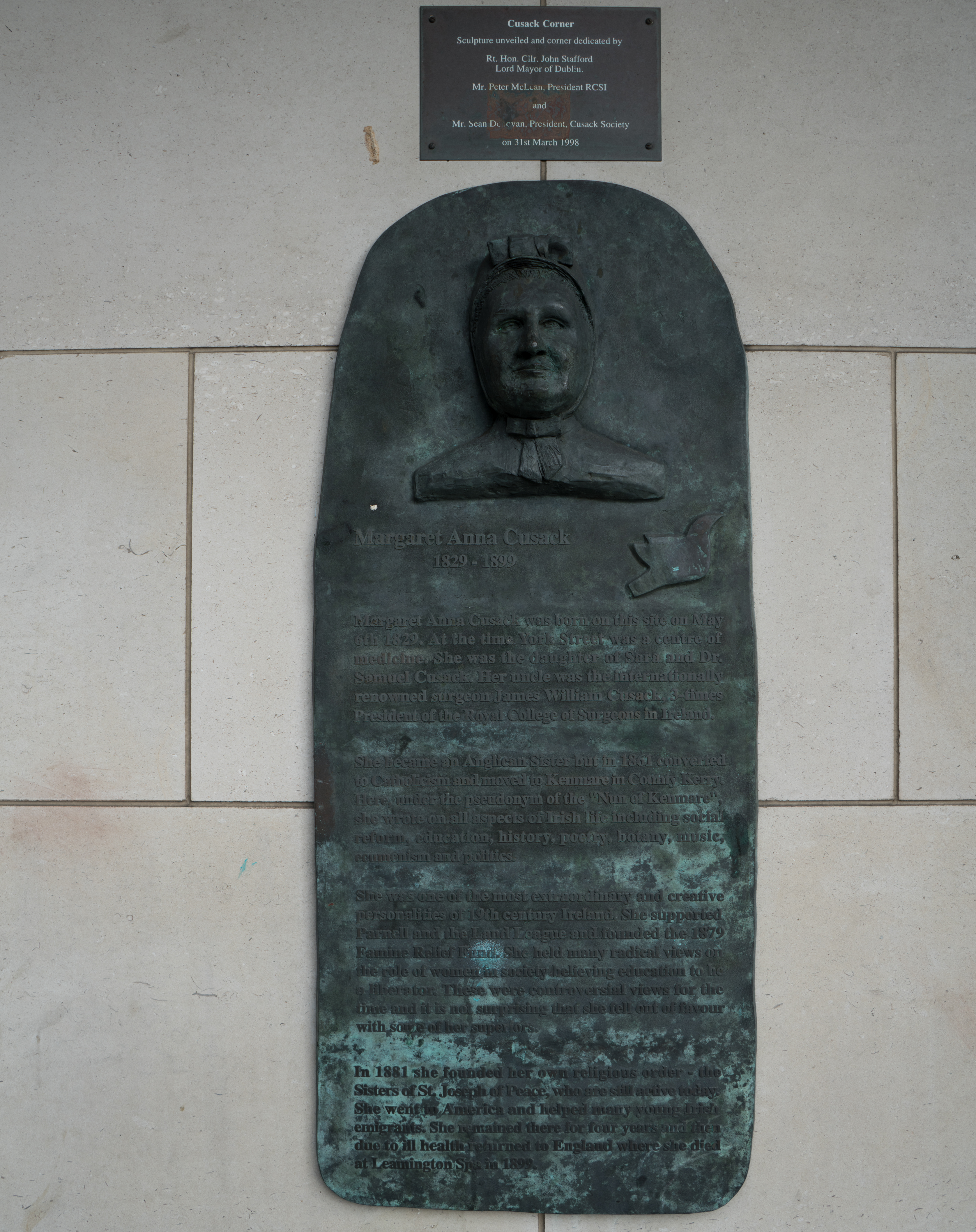 Known as the Nun of Kenmare, Margaret Anna Cusack was born in a house at the corner of Mercer Street and York Street in 1829. Recently the corner was renamed Cusack Corner. Although she was honoured by Pope Leo XIII the Vatican, because of her work for women's liberation, ordered that her name be "effaced" as founder of the Order of St Joseph of Peace. In 1888 she returned to the Anglican Communion after an dispute with her bishop and issued The Nun of Kenmare: An Autobiography the following year. She died on 5 June 1899, aged 70, and was buried in a Church of England-reserved burial site at Leamington Spa, Warwickshire, in England.